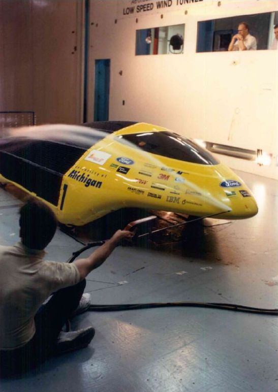 Maize & Blue wind tunnel testing at the Lockheed full scale wind tunnel in Marietta, GA.